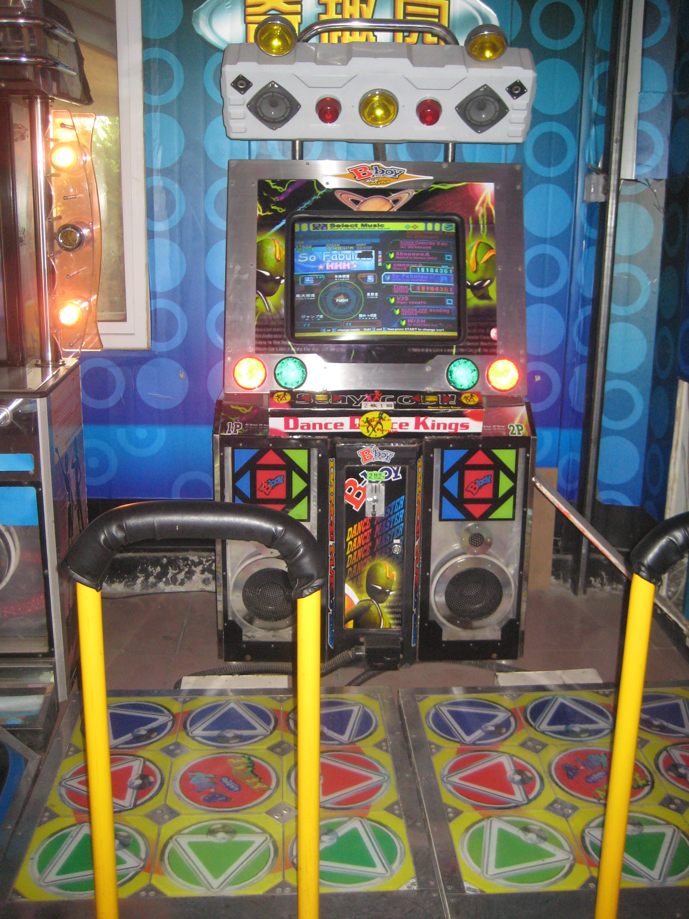 Stepmania arcade machine in Shijingshan Amusement Park.